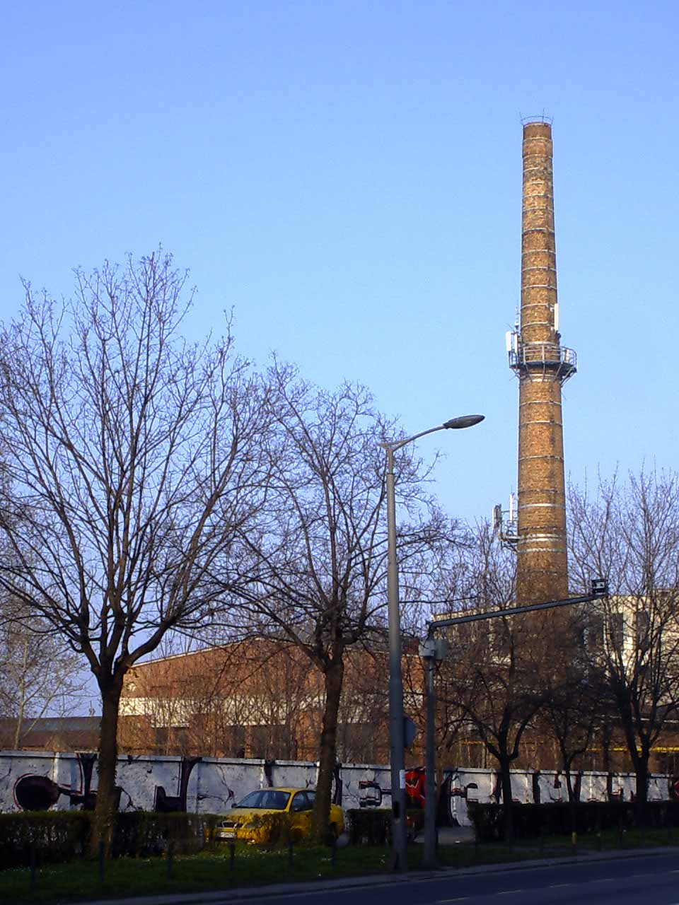 Former Textile Mill in Belgrade ("Belgrade Cotton Combine").Srpskohrvatski / српскохрватски: Zgrada (bivšeg) Beogradskog pamučnog kombinata, viđena iz ul. Despota Stefana.